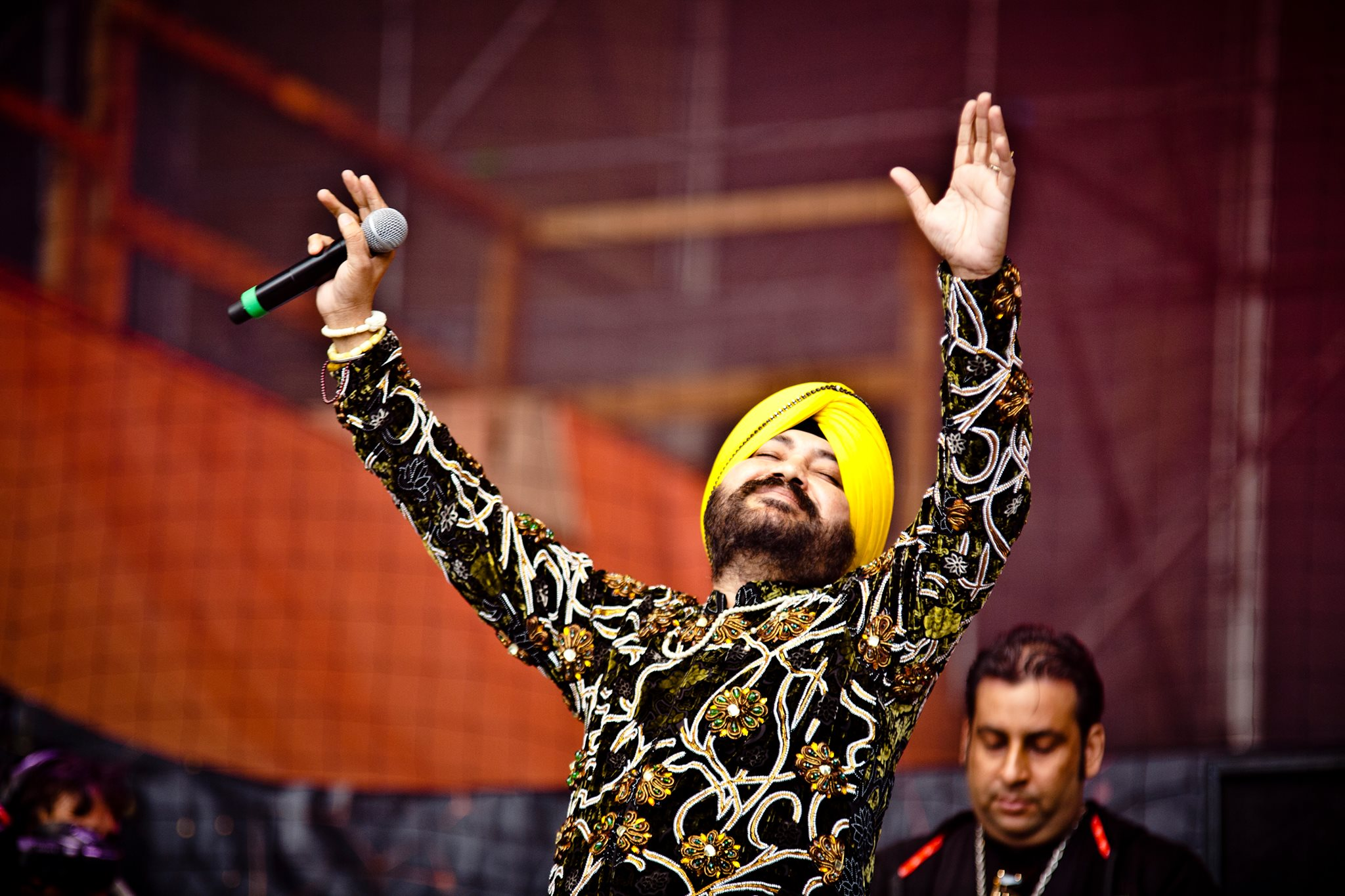 You Fest, Madrid, Spain